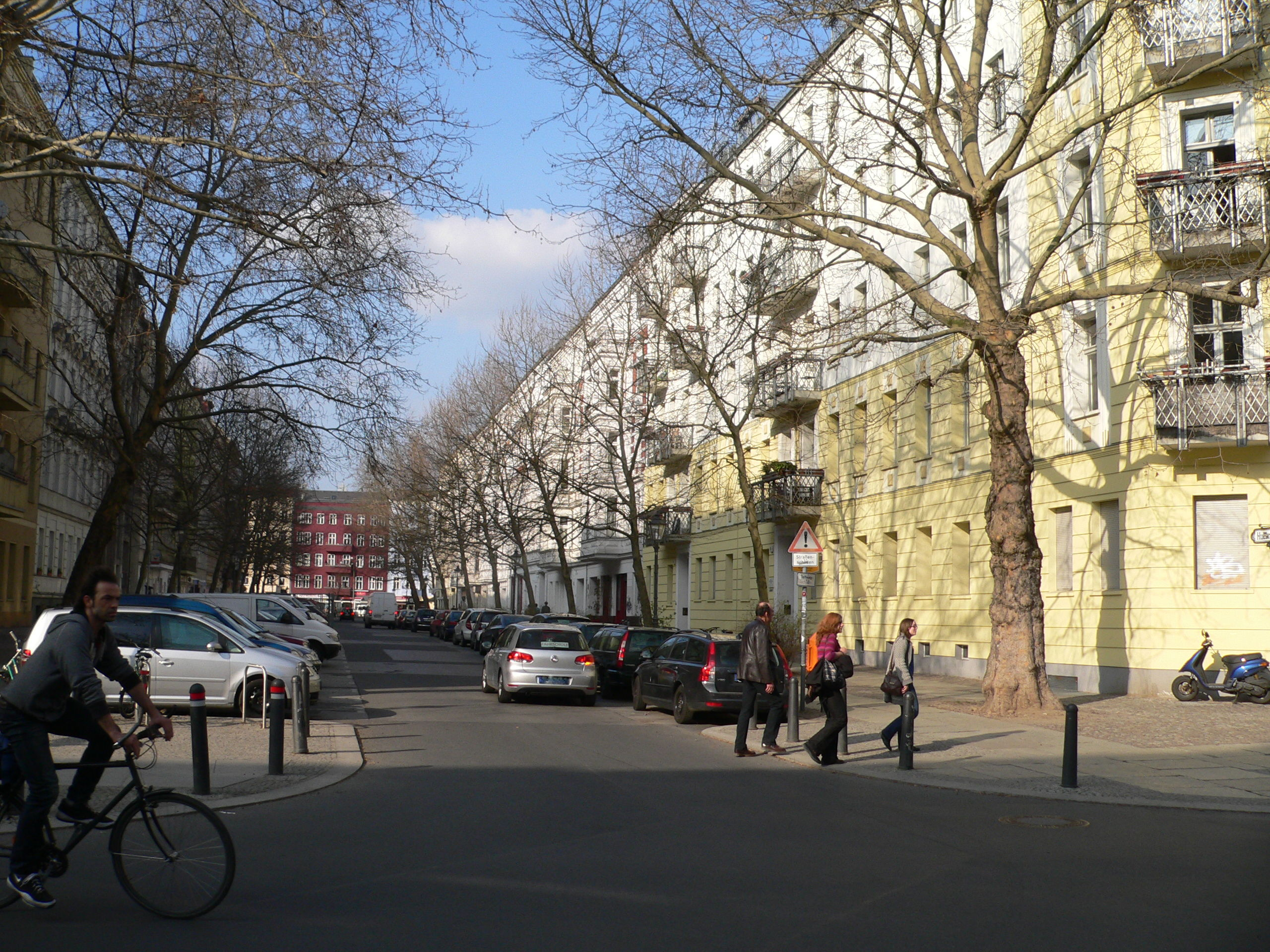 Berlin Prenzlauer Berg Husemannstraße